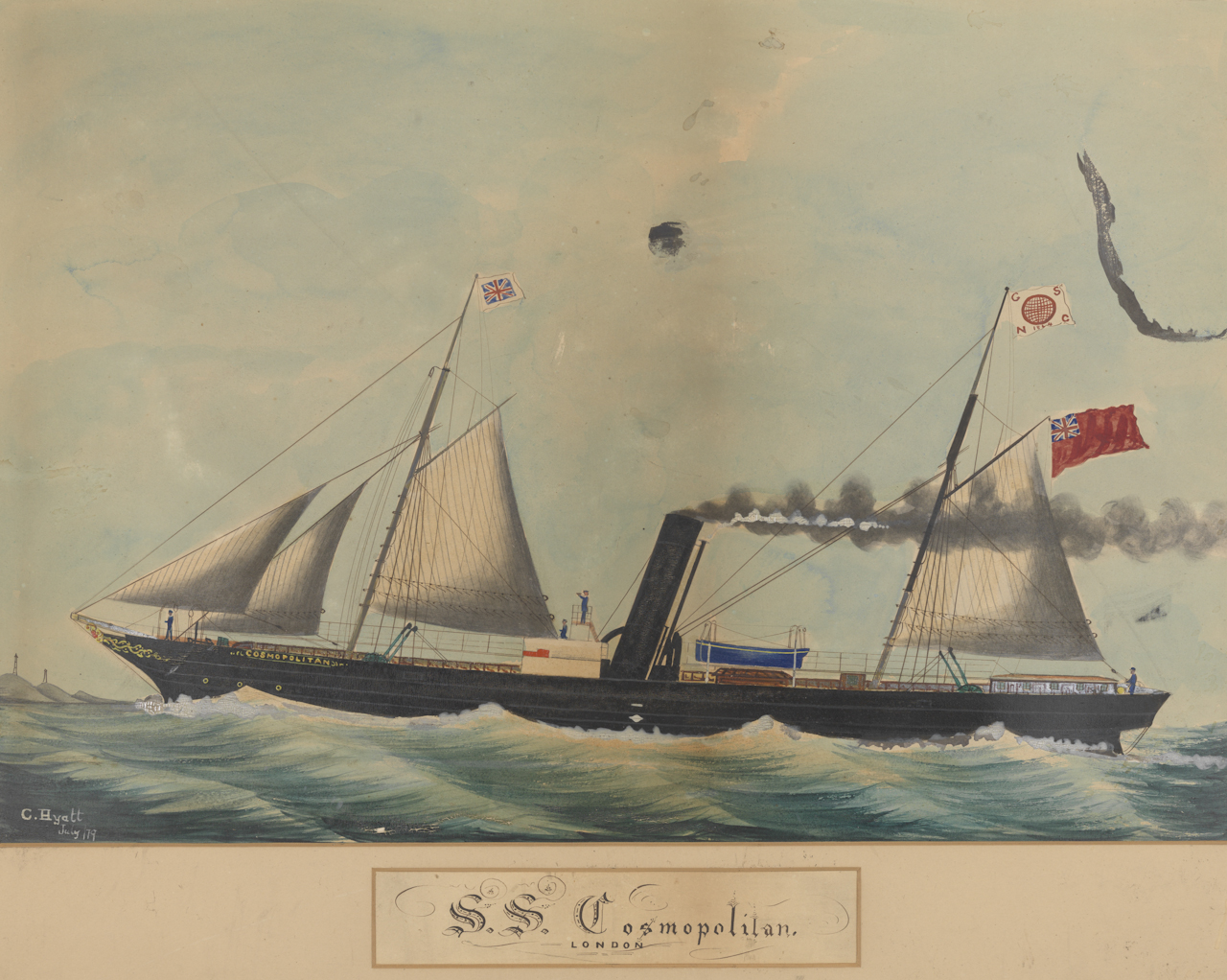 S.S. Cosmopolitan, London of the GSNC - General Steam Navigation Company Signed by artist and dated. S.S. Cosmopolitan, London